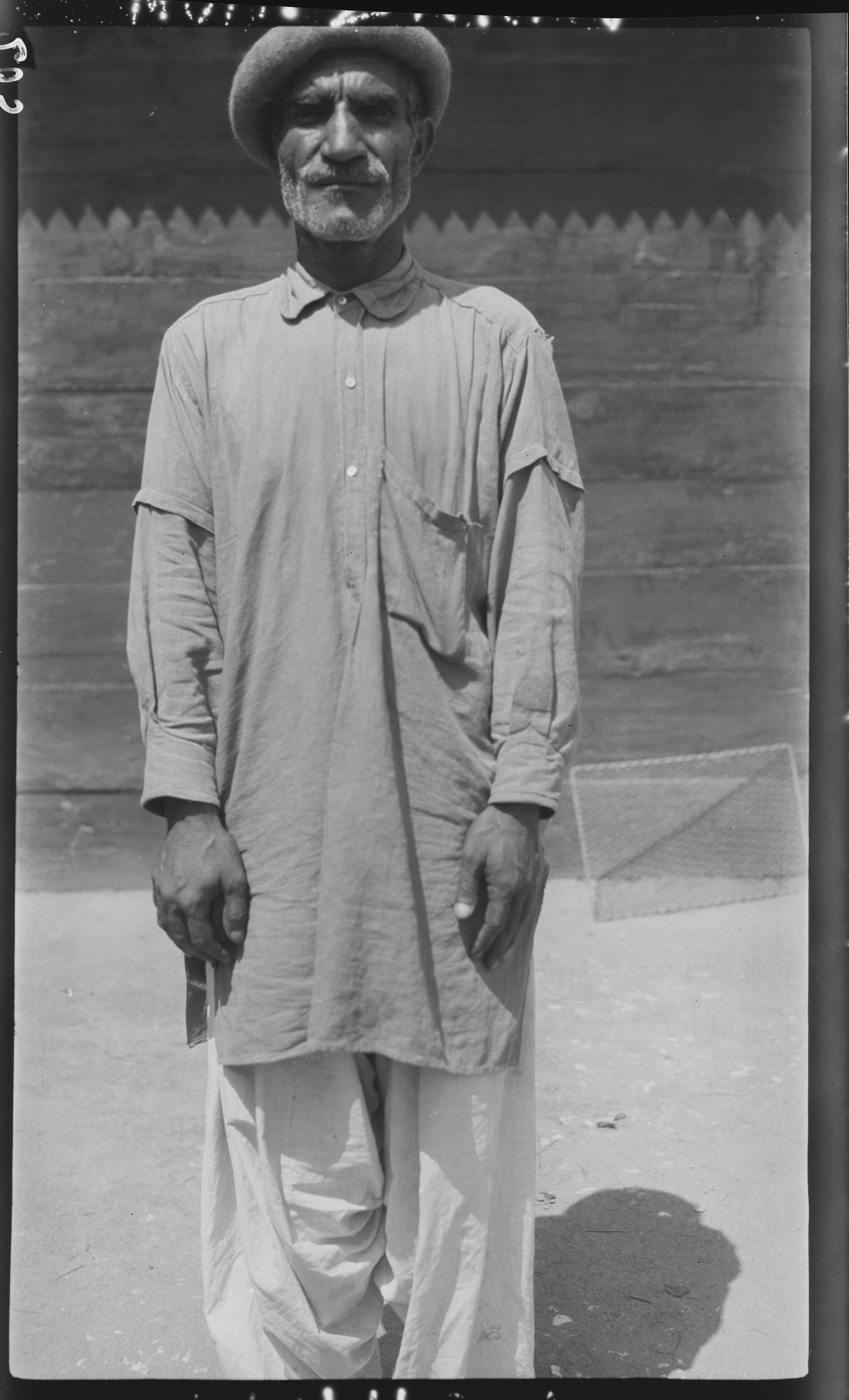 Chitral City, NWFP, Pakistan A Burusho informant from Hunza. "I had here, only one day, a Burushaski speaker from Hunza. A strange language!"